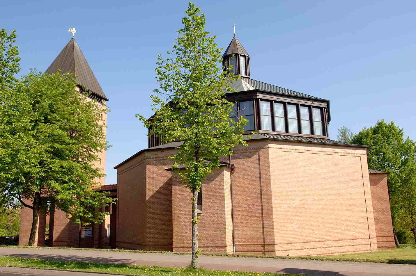 Church Heilig Geist Bielefeld (Germany)